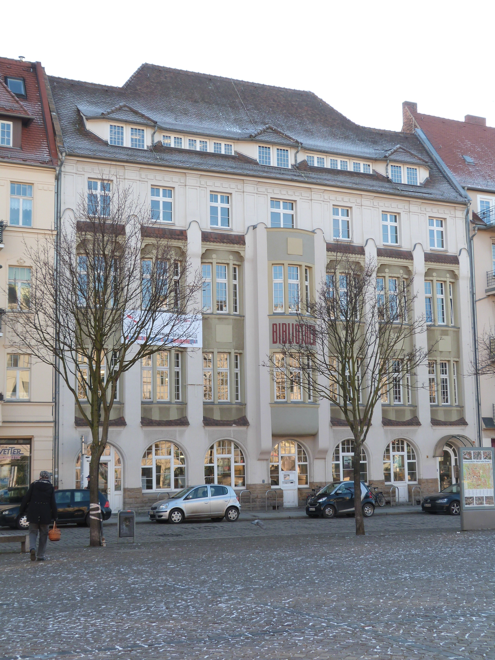 Salzgrafenstraße No. 2, Public library in Halle (Saale)